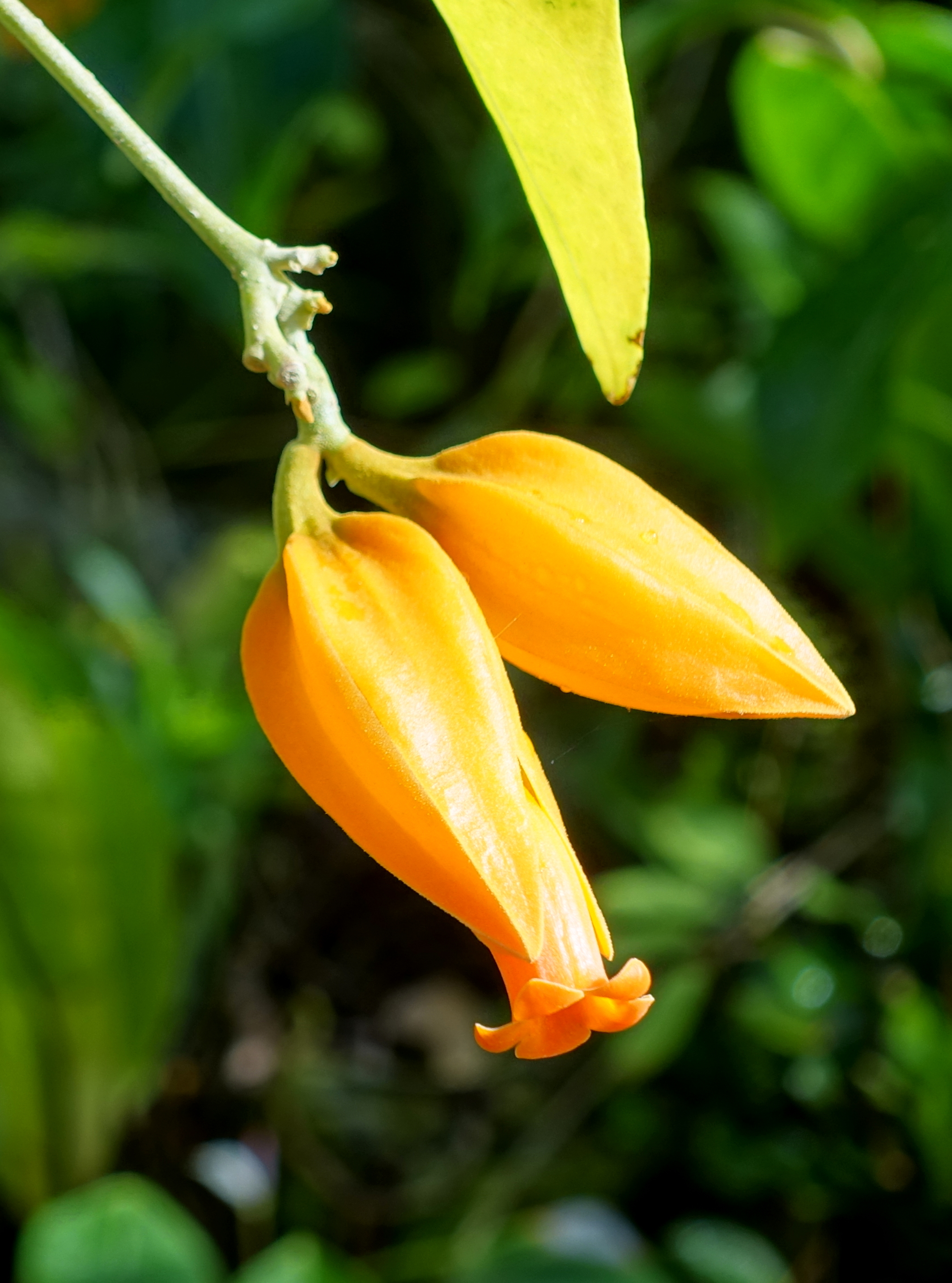 Botanical specimen in the Marie Selby Botanical Gardens - Sarasota, Florida, USA.